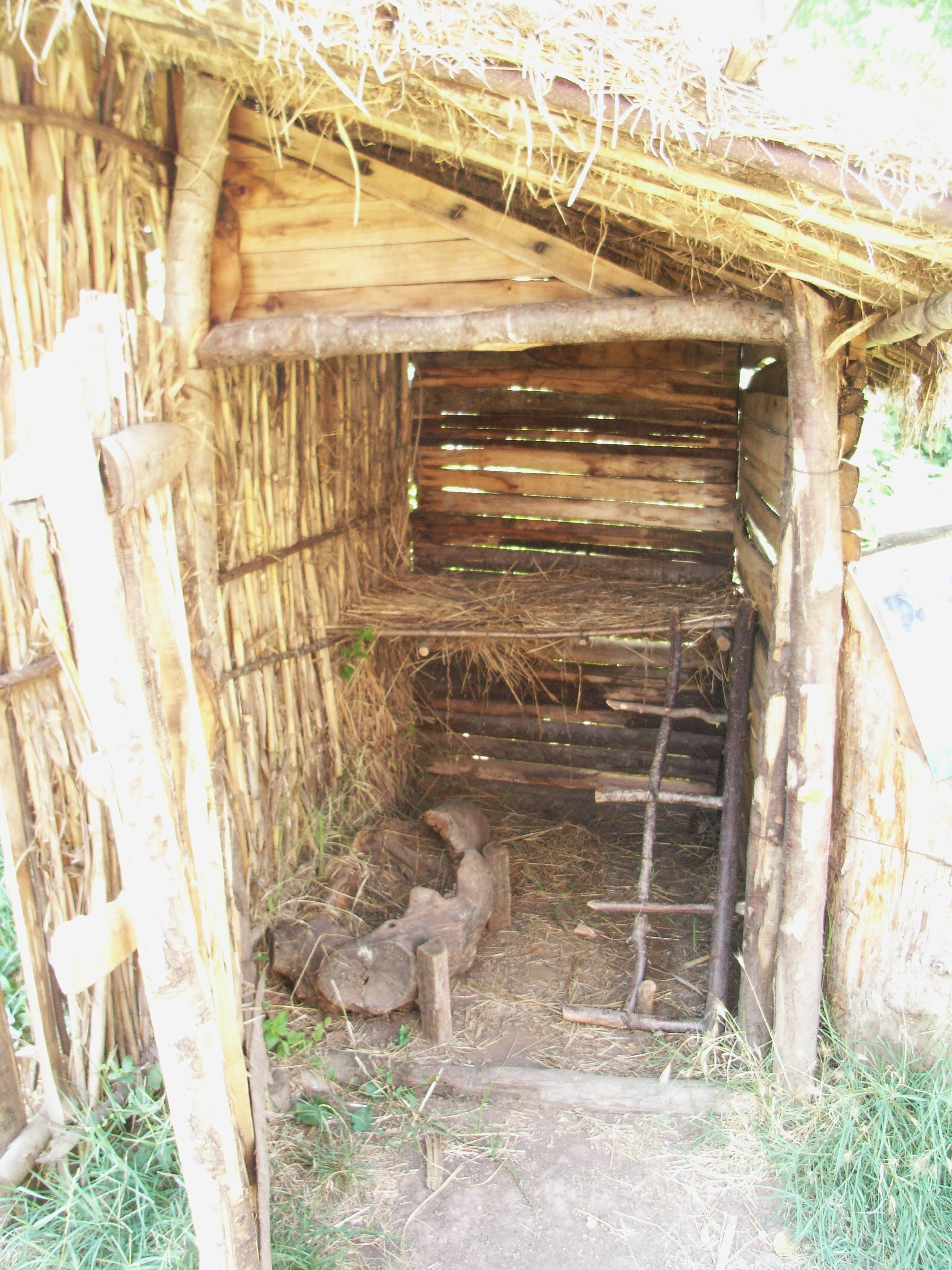 Nineteenth Century farm reconstruction Caffarella. Henhouse